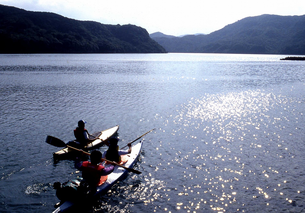 Sea kayaking by Farutoboto.jpg